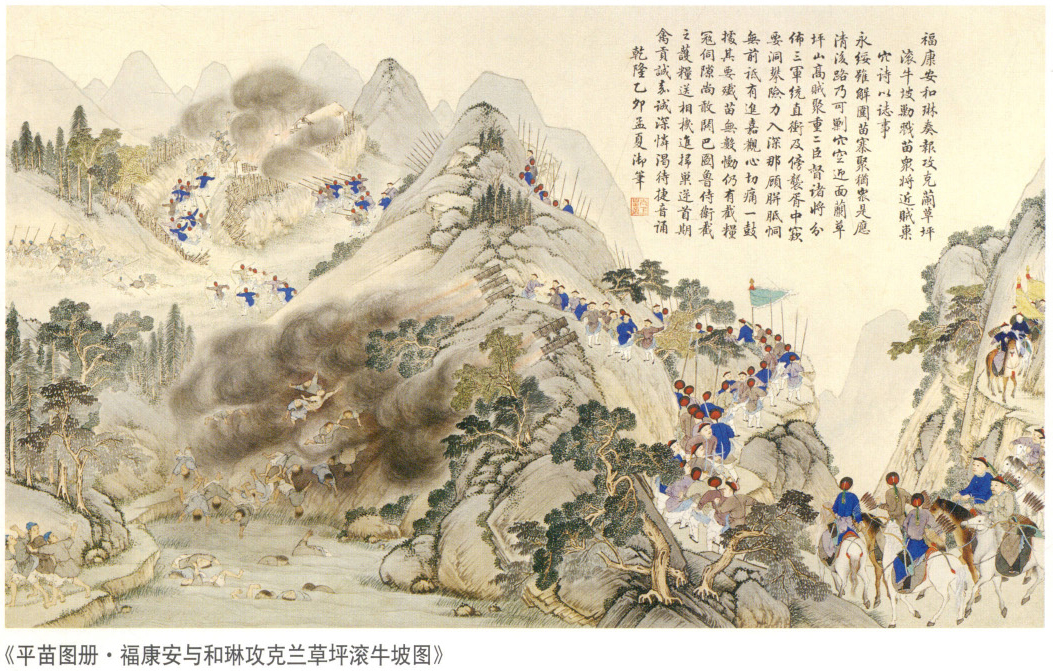 A scene of the Chinese (Qing dynasty) Campaign against the Miao (Hunan) 1795